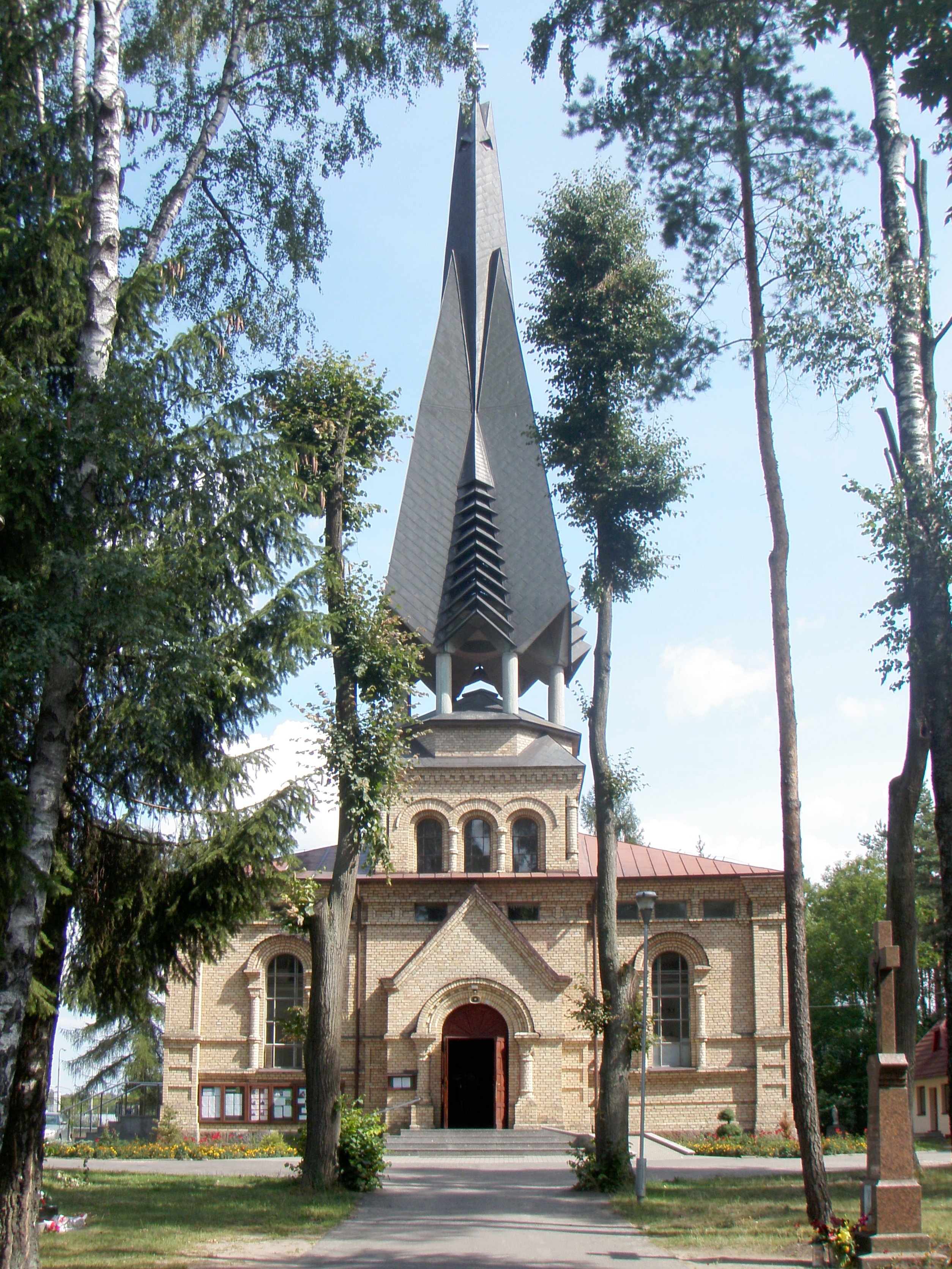 Our Lady of Częstochowa church in Augustów (Poland).